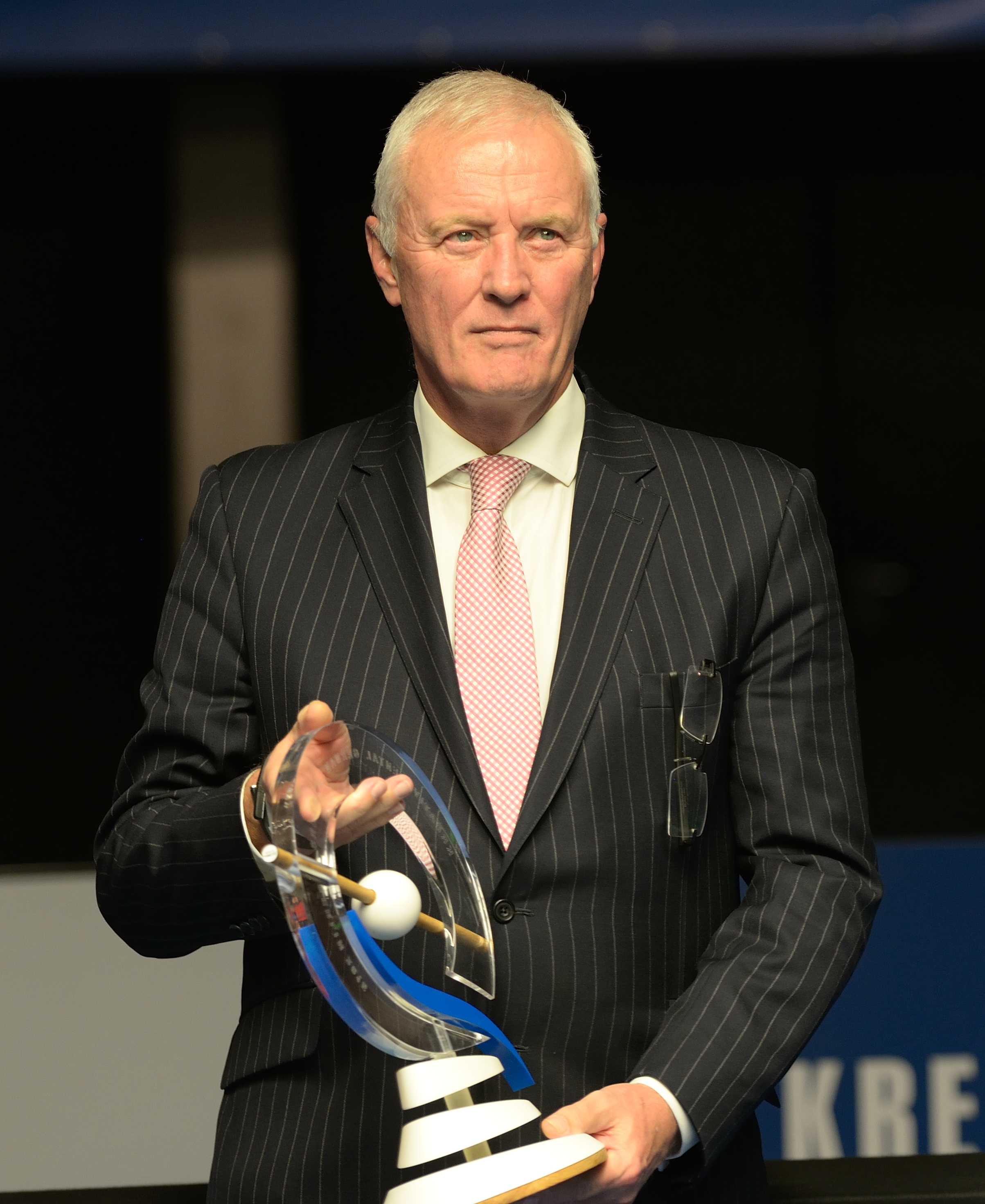 Barry Hearn. Picture taken in Berlin during the Snooker German Masters in 2015.